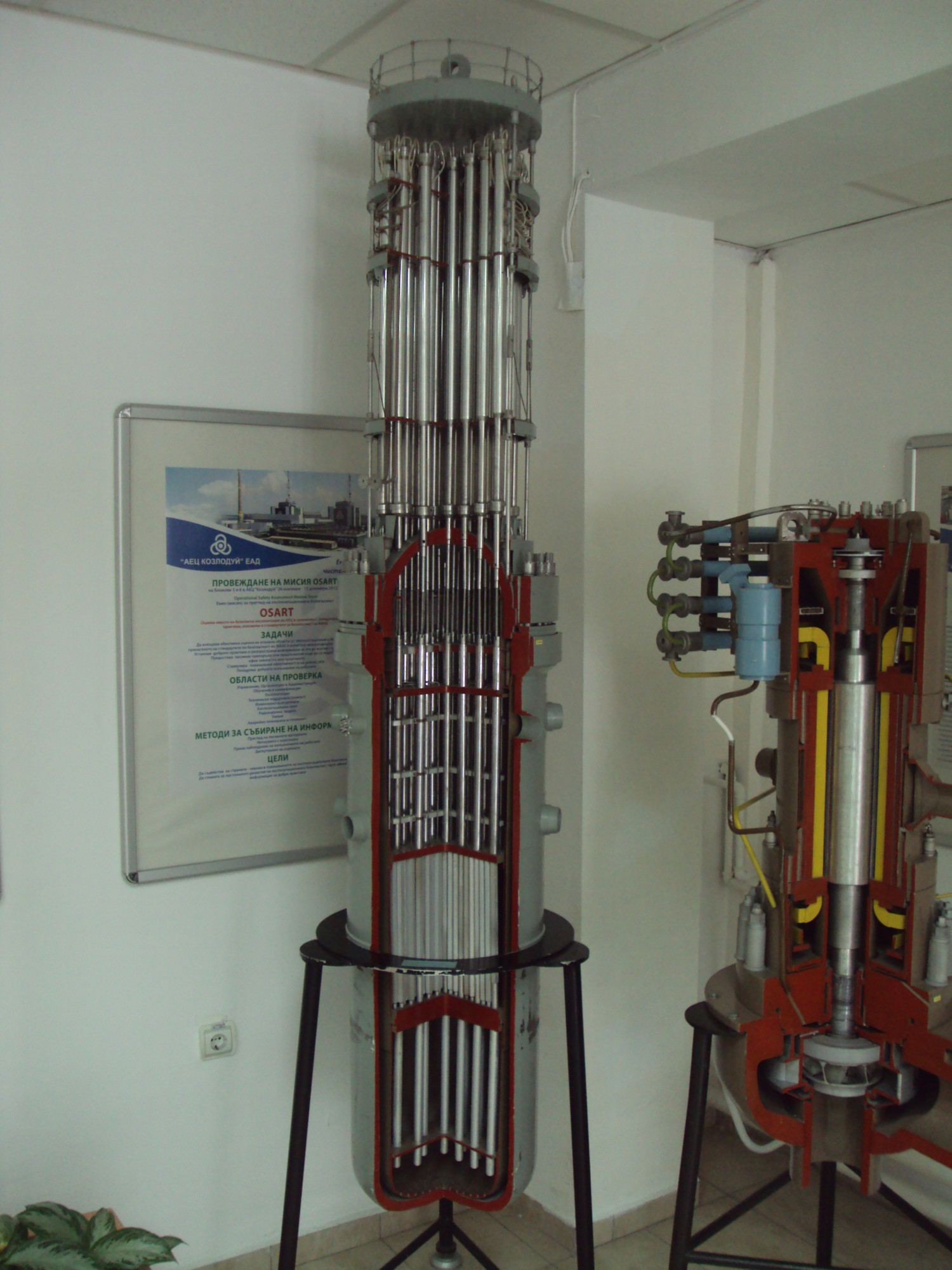 Kozloduy, Nuclear Power Plant in Bulgaria